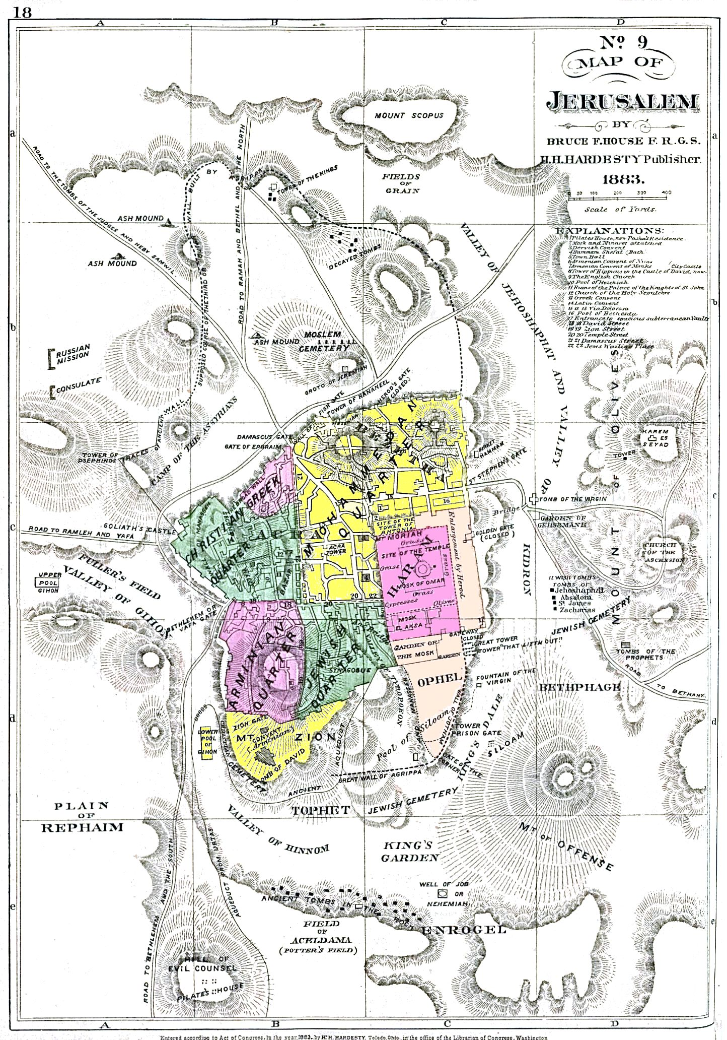 "Map of Jerusalem" Chromo-lithographic map